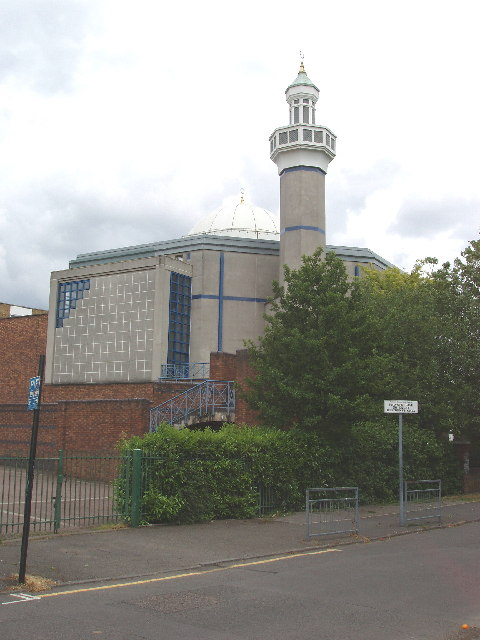 King Fahad Academy's mosque and minaret, East Acton. This is a school for the children of Saudi diplomats as well as the children of Arabs and Muslims in London. The photograph is taken from the South of the site.